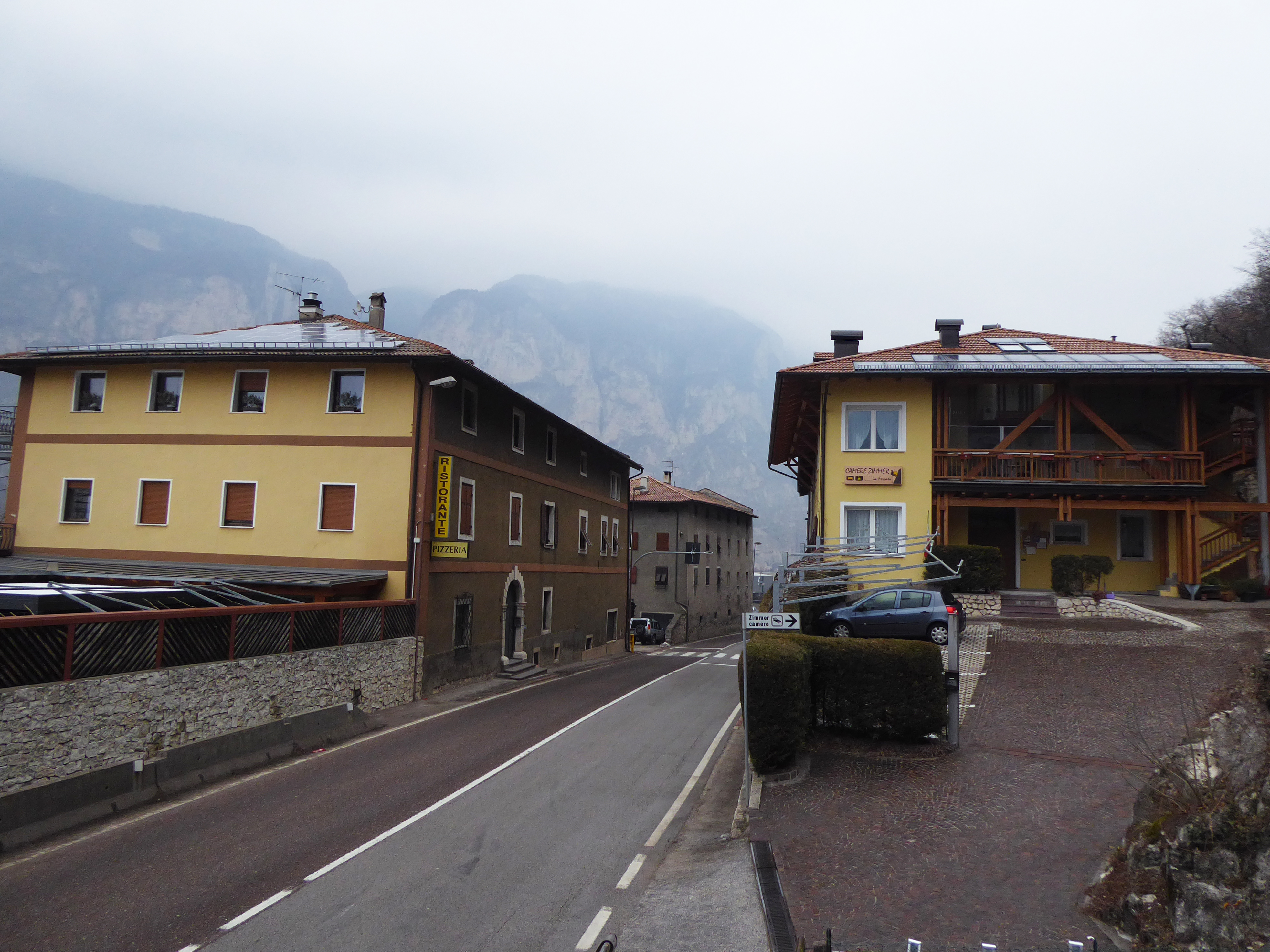 Cadino (Faedo, Trentino)